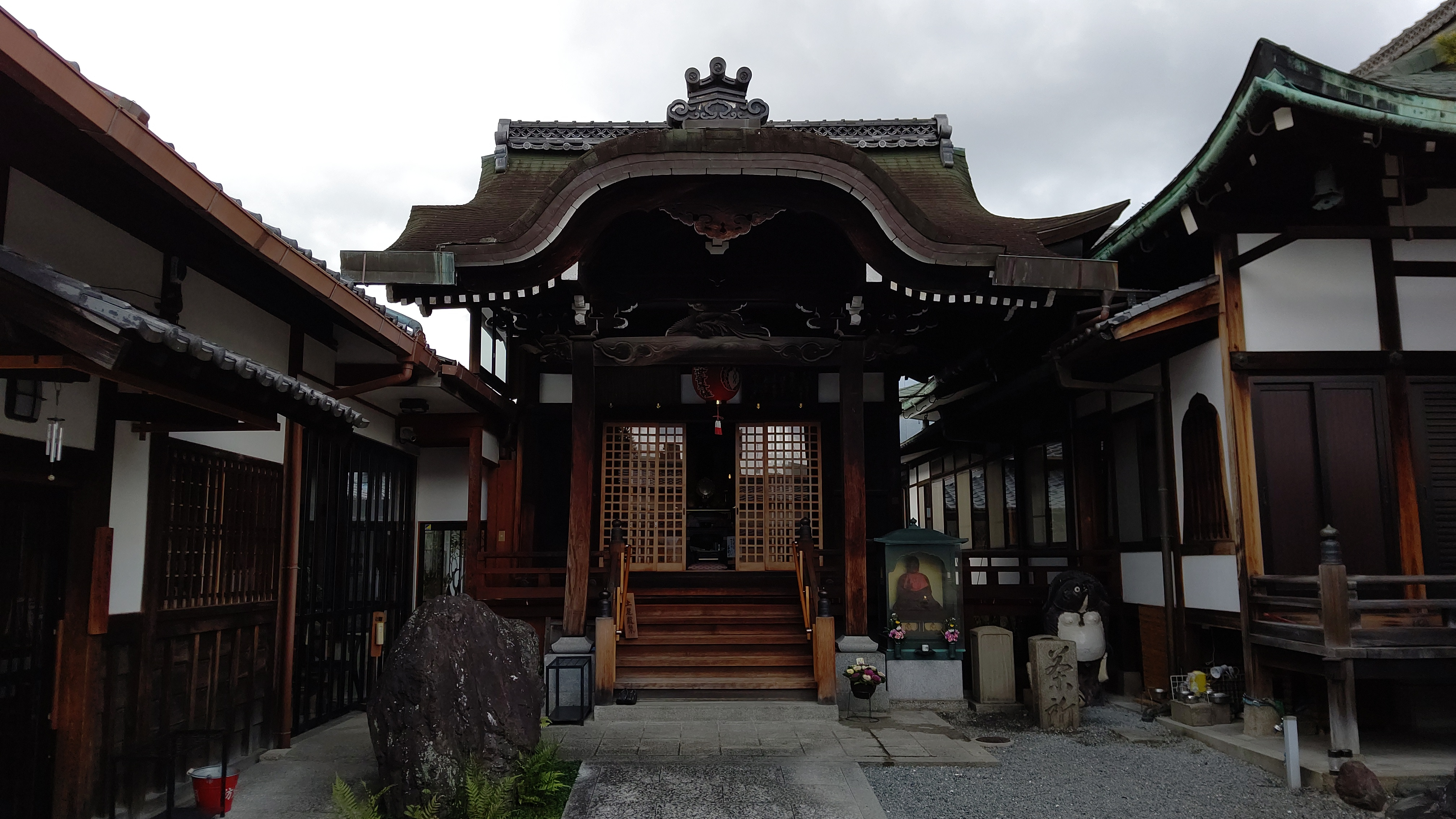 Choenji-temple Kannon-do